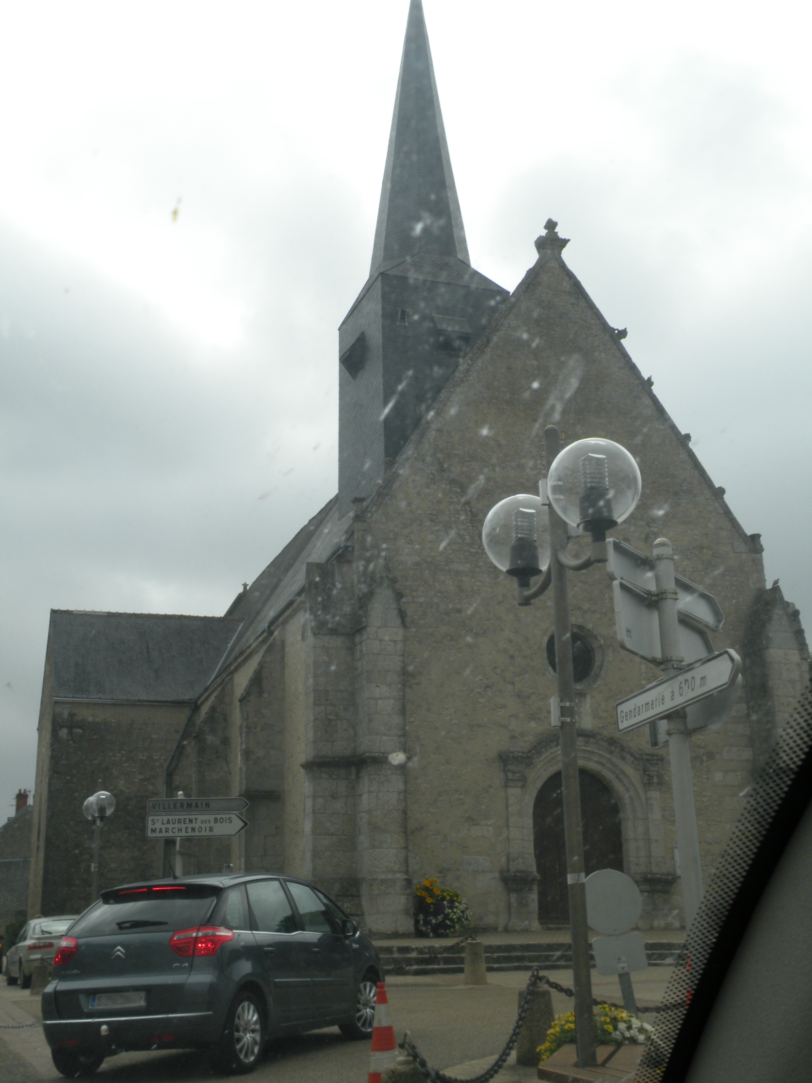 Church of Ouzouer-le-Marché.